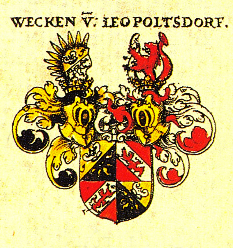 Coat of Arms of Wecken (Beck) von Leopoltsdorf, Austria